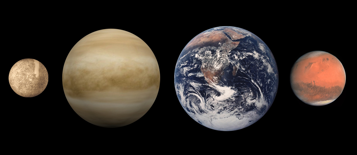 This diagram shows the approximate relative sizes of the terrestrial planets, from left to right: Mercury, Venus, Earth and Mars. Distances are not to scale. A terrestrial planet is a planet that is primarily composed of silicate rocks. The term is derived from the Latin word for Earth, "Terra", so an alternate definition would be that these are planets which are, in some notable fashion, "Earth-like". Terrestrial planets are substantially different from gas giants, which might not have solid surfaces and are composed mostly of some combination of hydrogen, helium, and water existing in various physical states. Terrestrial planets all have roughly the same structure: a central metallic core, mostly iron, with a surrounding silicate mantle. Terrestrial planets have canyons, craters, mountains, volcanoes and secondary atmospheres.